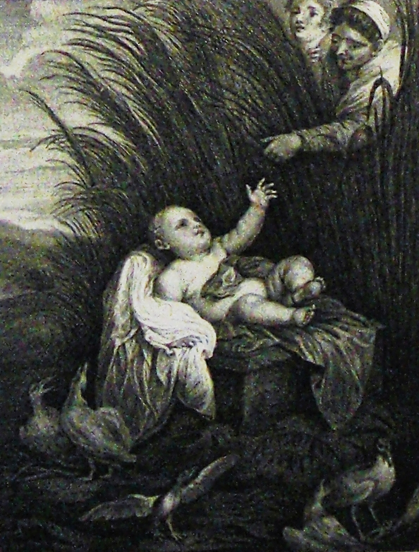 A print from the Phillip Medhurst Collection of Bible illustrations in the possession of Revd. Philip De Vere at St. George’s Court, Kidderminster, England.